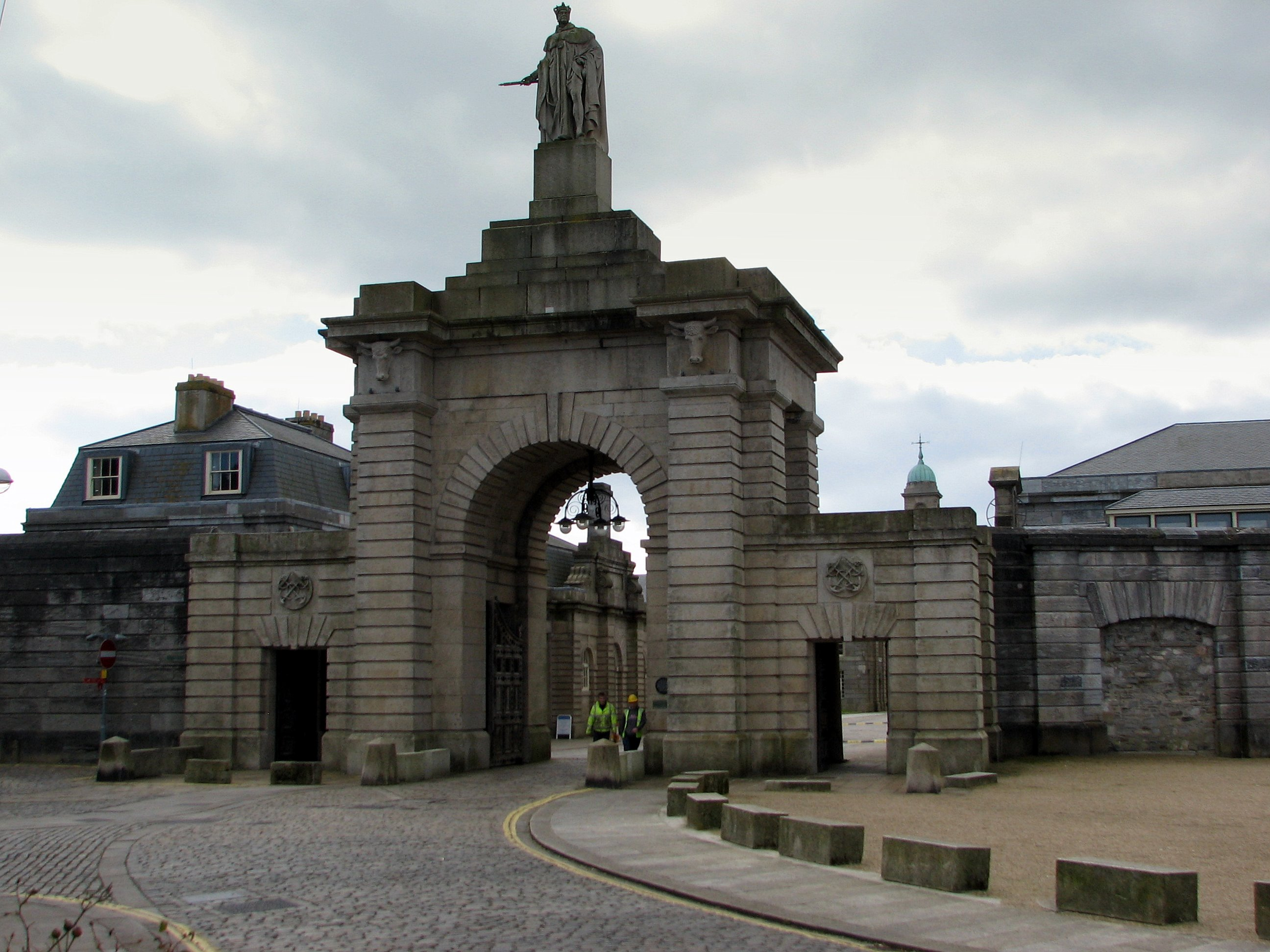 The impressive gateway to the Royal William Victualling Yard, Plymouth, Devon, England. The Yard was designed by Sir John Rennie in 1825-33 and this gateway is surmounted by a 13 foot statue of William IV.